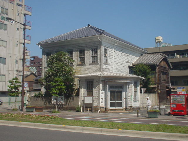 The historic Kokura prefectural office (Former Kokura police station), Kitakyushu. The roof looks new, but it needs a coat of paint! Photo by Ian Ruxton (Historian), released as described below.